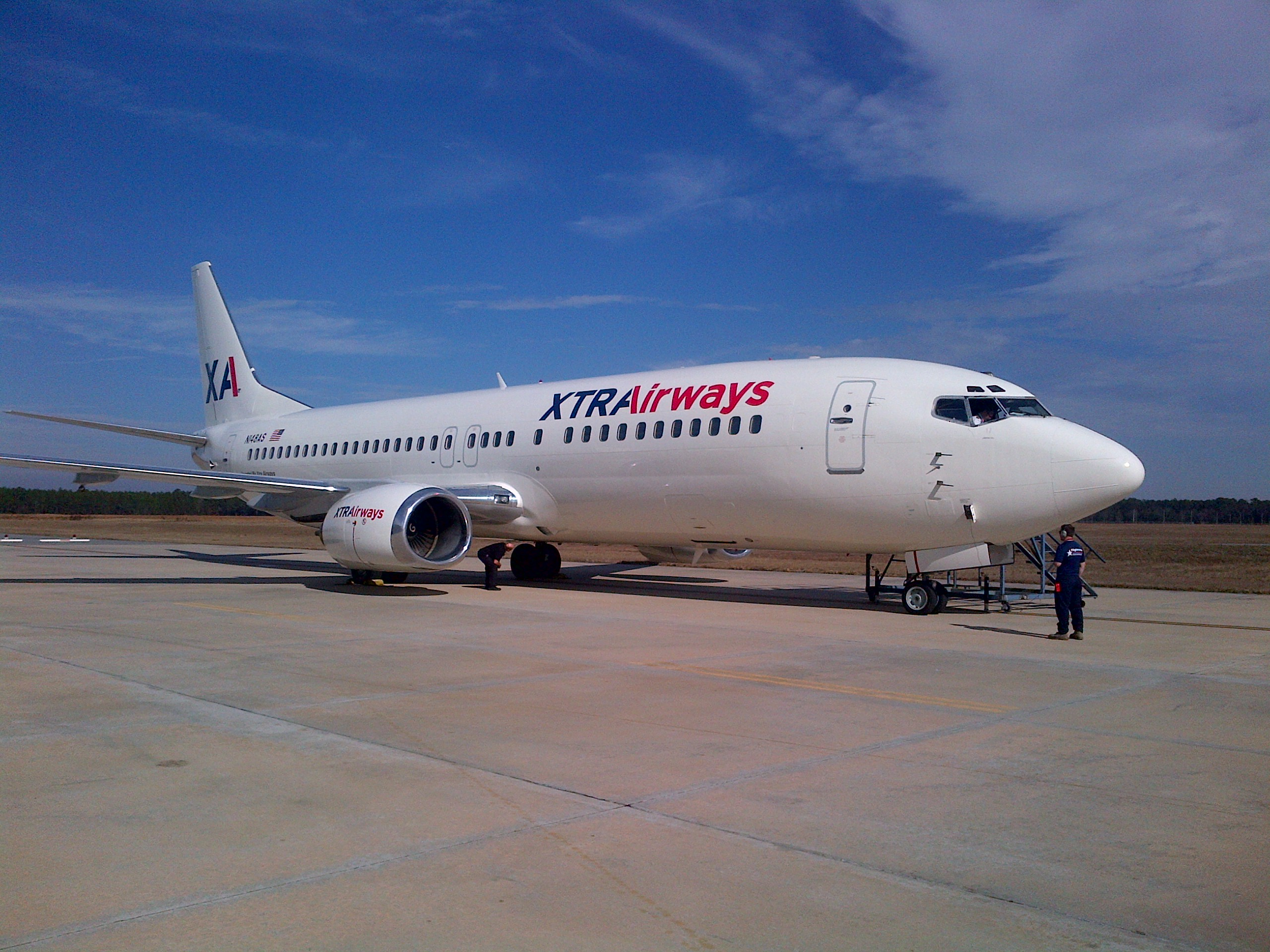 XTRA Airways Boeing 737-400 parked in Jacksonville, Florida December 2014